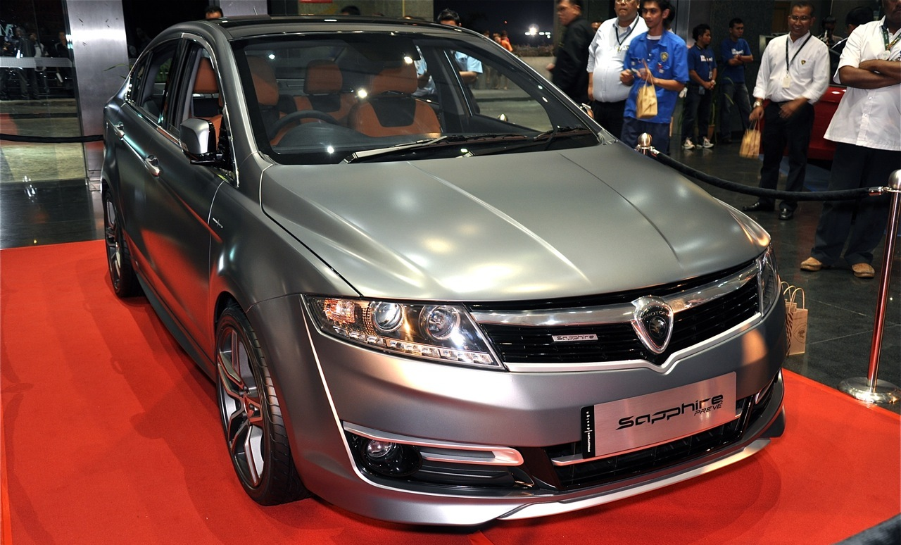 Proton Prevé Sapphire Concept exterior. Photo taken at Seri Kembangan, Malaysia.